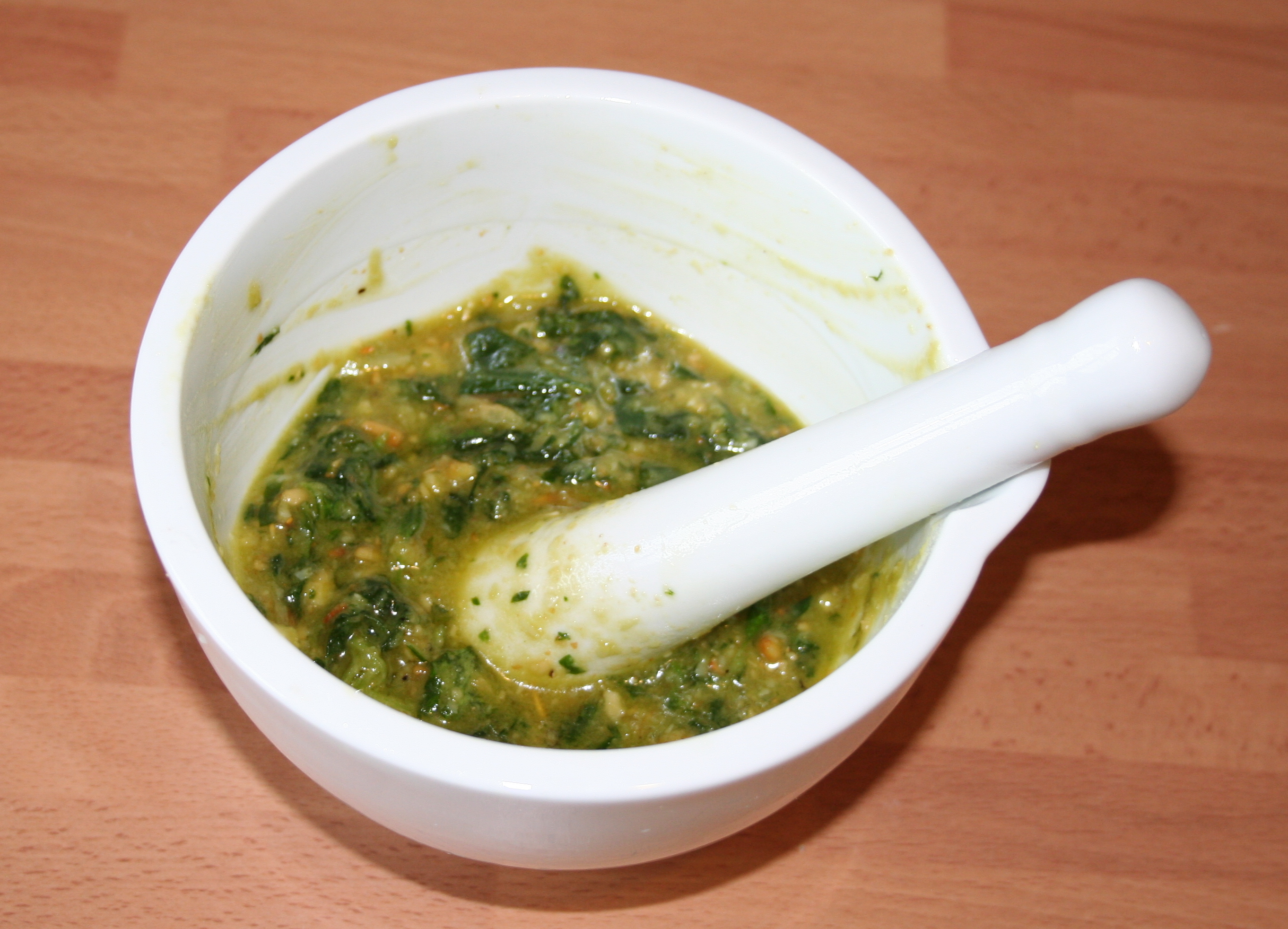 A fresh, home-made Pesto made to this recipe.